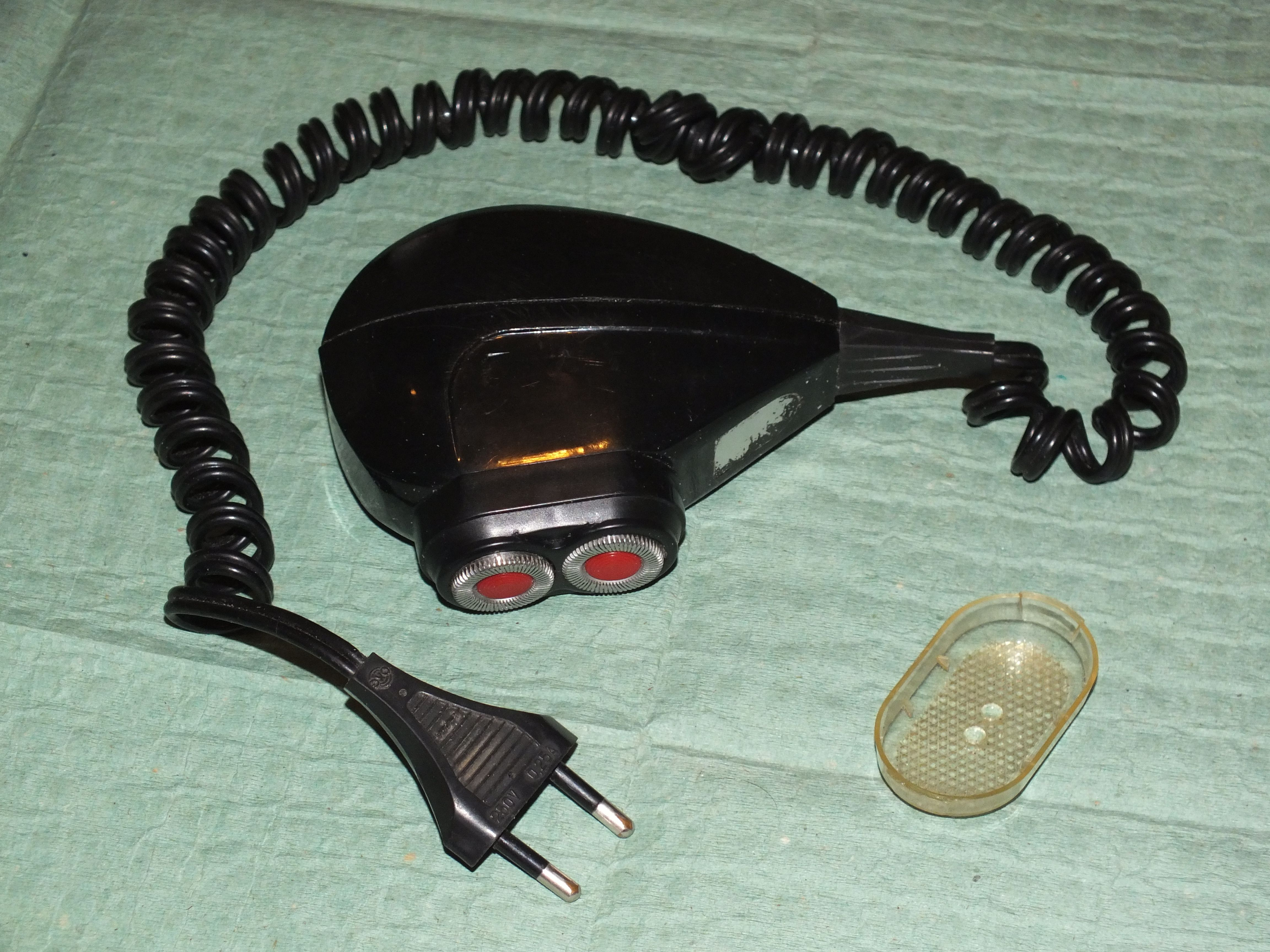 Electric shavers